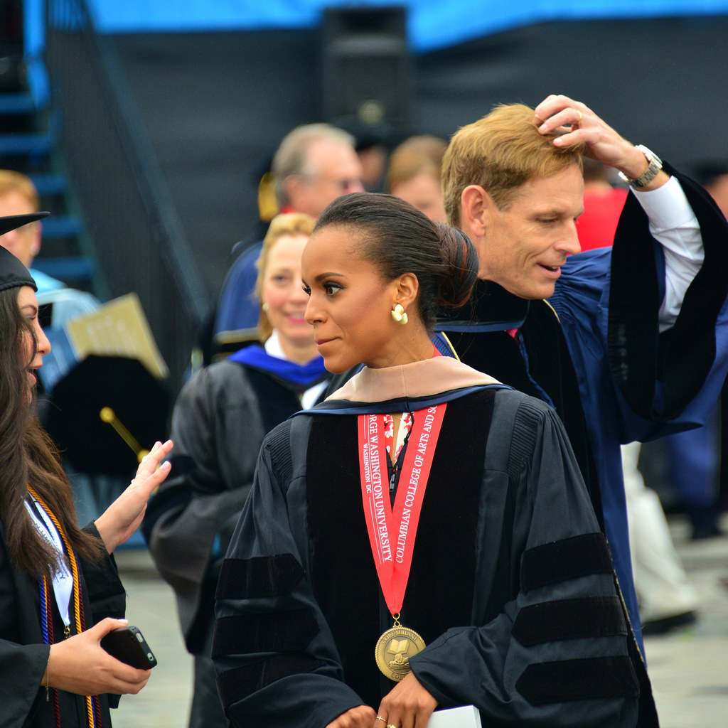 Kerry Washington addressed students at George Washington University Sunday morning. Washington is the star of ABC’s hit show, “Scandal” and plays “Olivia Pope”